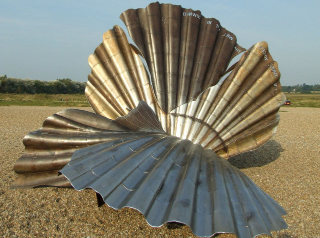 Benjamin Britten memorial One of the rare works of art that has encourages people to sit on it. "Please fell free to sit on 'Scallop' and contemplate the sea."